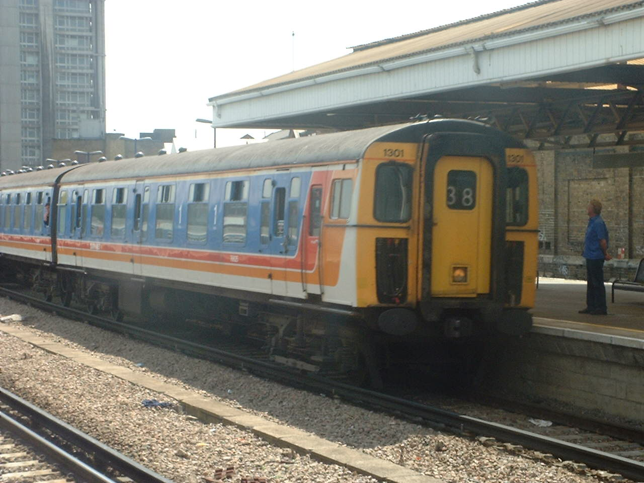 South West Trains 421301 at Vauxhall